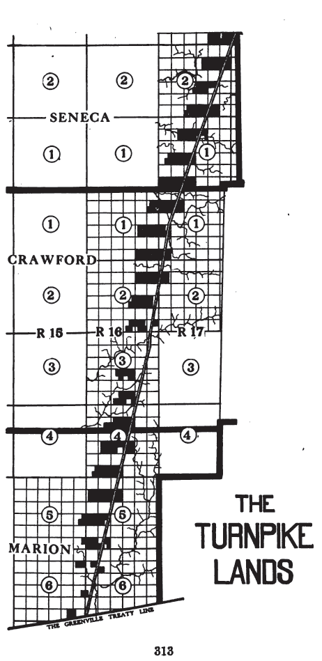 lands granted to Ohio in 1828 by congress to supports construction of a road. Lands known as the Turnpike Lands